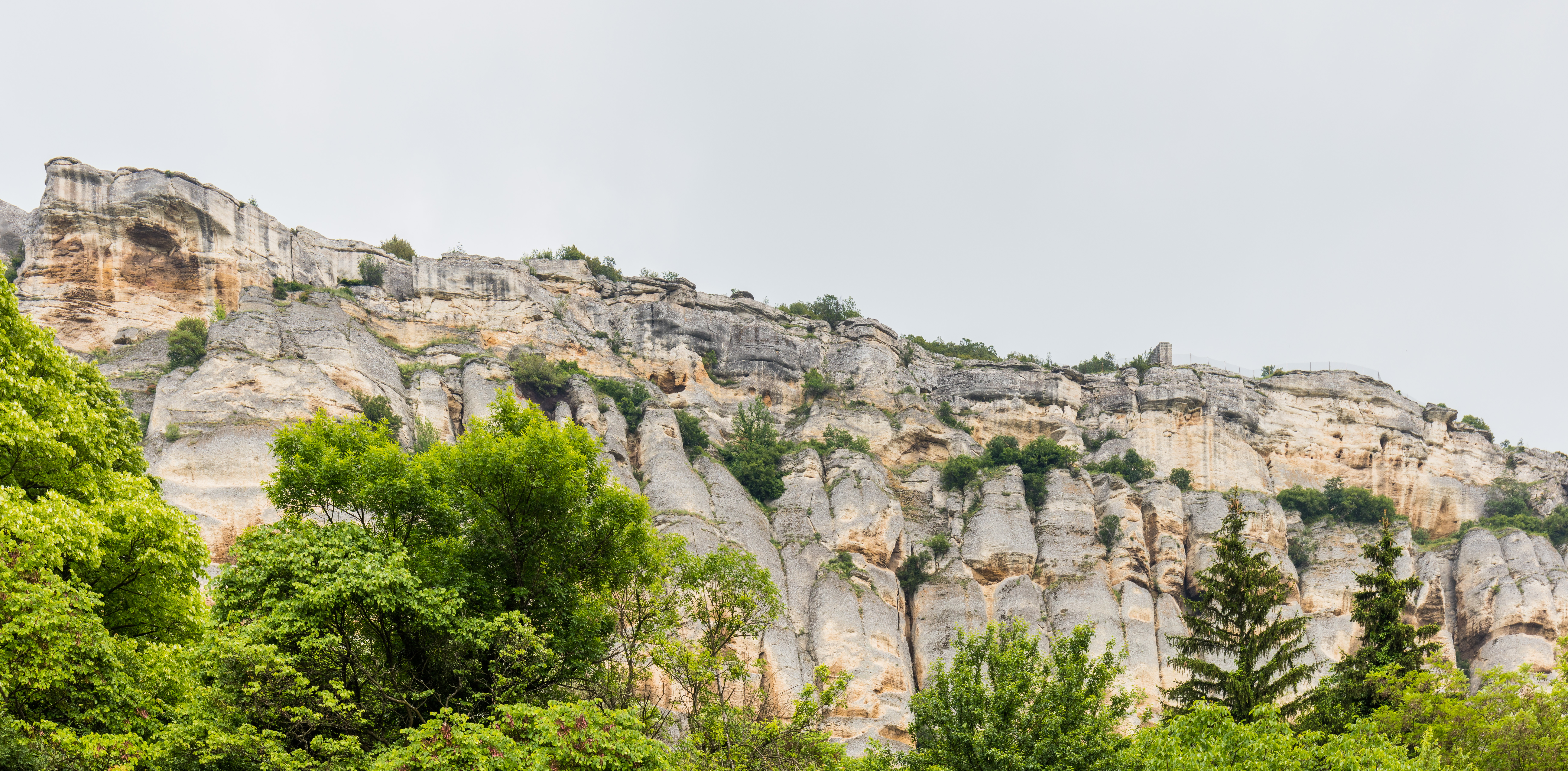 Historical arqueological national preserve of Madara, Bulgaria